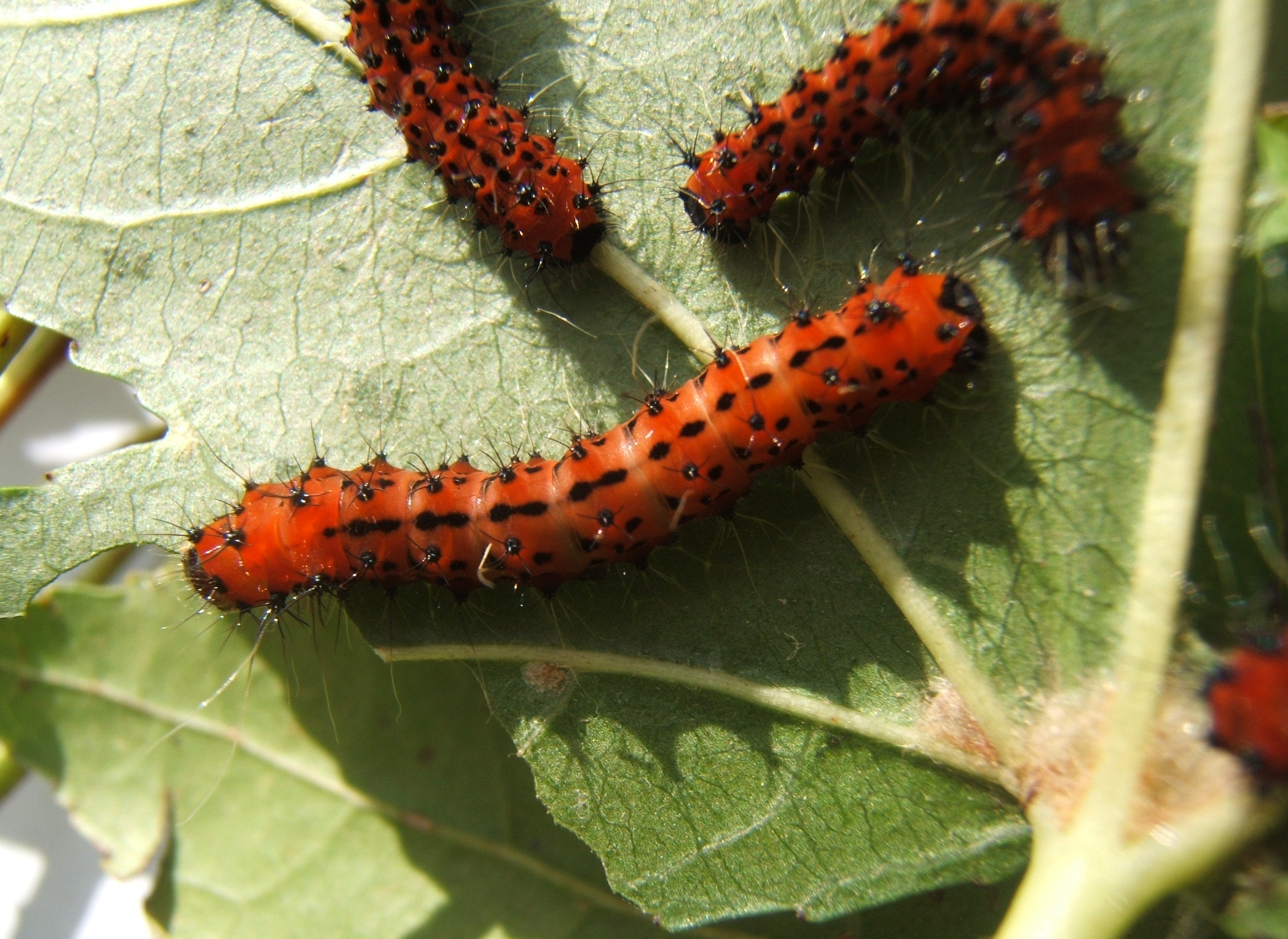 Actias selene 2nd instar reared on American Sweetgum. Taken and raised by Shawn Hanrahan.